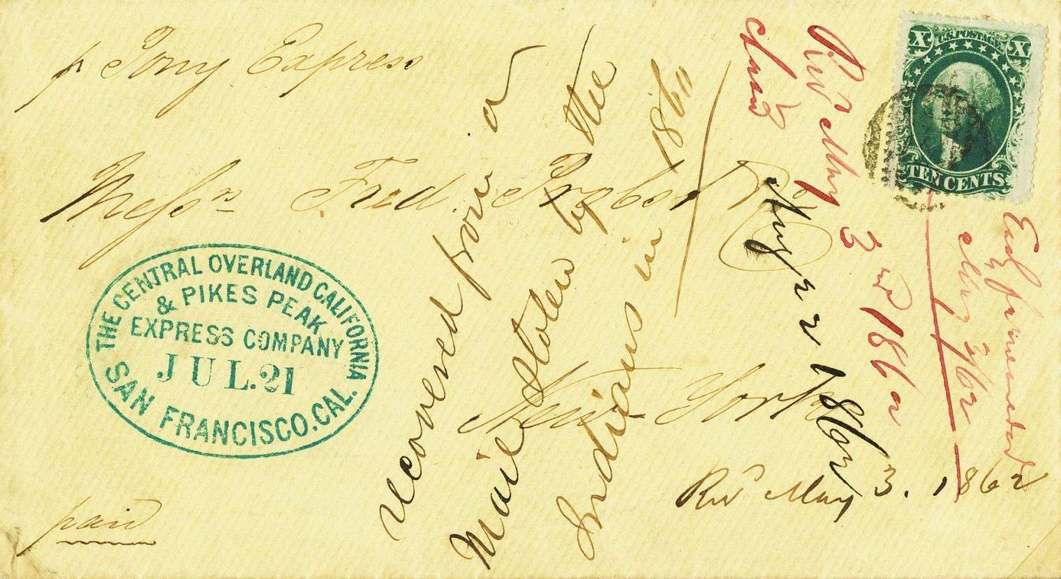 Pony Express Stolen Mail, 1860 Image of a postal cover (mail) carried by the Pony Express which was stolen during a Piaute Indian raid.It was recovered two years later and made it to its destination in St. Joseph, Missouri. Notation on cover reads “recovered from a mail stolen by the Indians in 1860” and bears a New York backstampof May 3, 1862, the date when it was finally delivered in New York. Cover is also frankedwith U.S. Postage issue of 1857, Washington, 10c green. To the right a detailed image of the type of the postage stamp, 1857 issue, used to frank this cover (envelope).